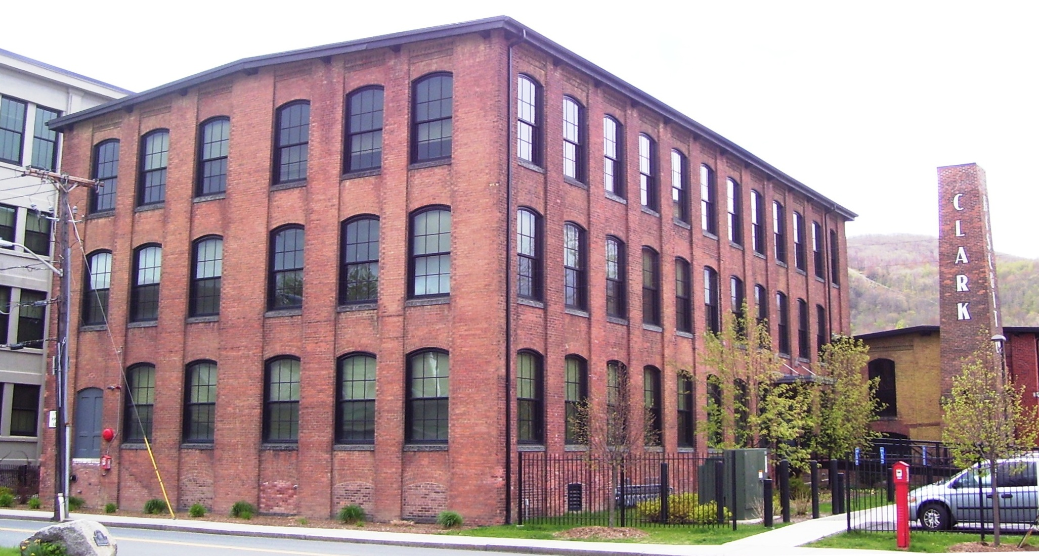 The H. W. Clark Biscuit Company, at 179-191 Ashland Street in North Adaams, Massachusetts, was built in 1923-30 to replace an earlier building on Liberty Street, built in 1899, which was destroyed by fire. Clark wned other businesses in the area as well, including a wholesaler, a shoe factory and a produce company. (Source: [1])